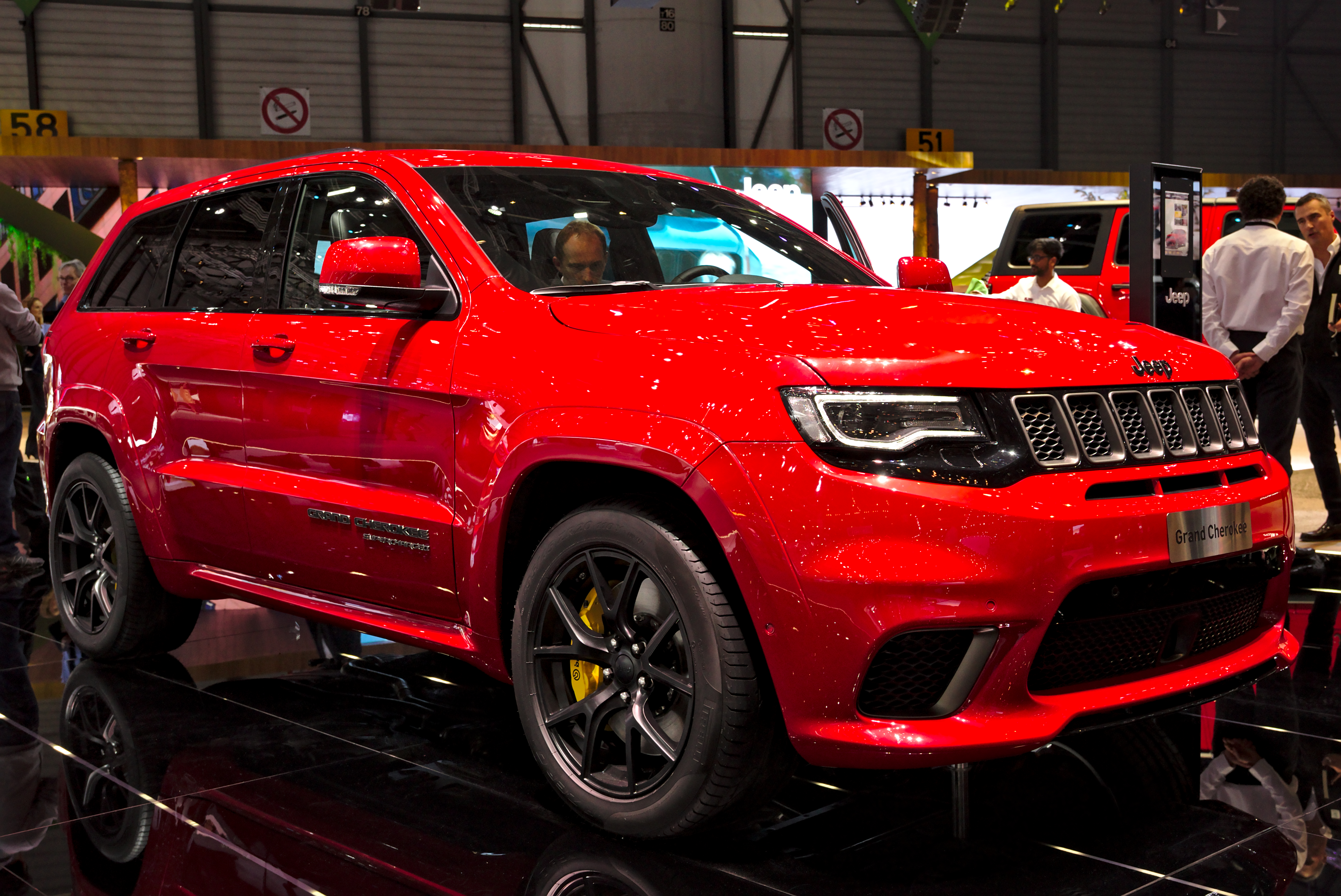 Jeep Grand Cherokee Trackhawk at Geneva Motorshow 2018